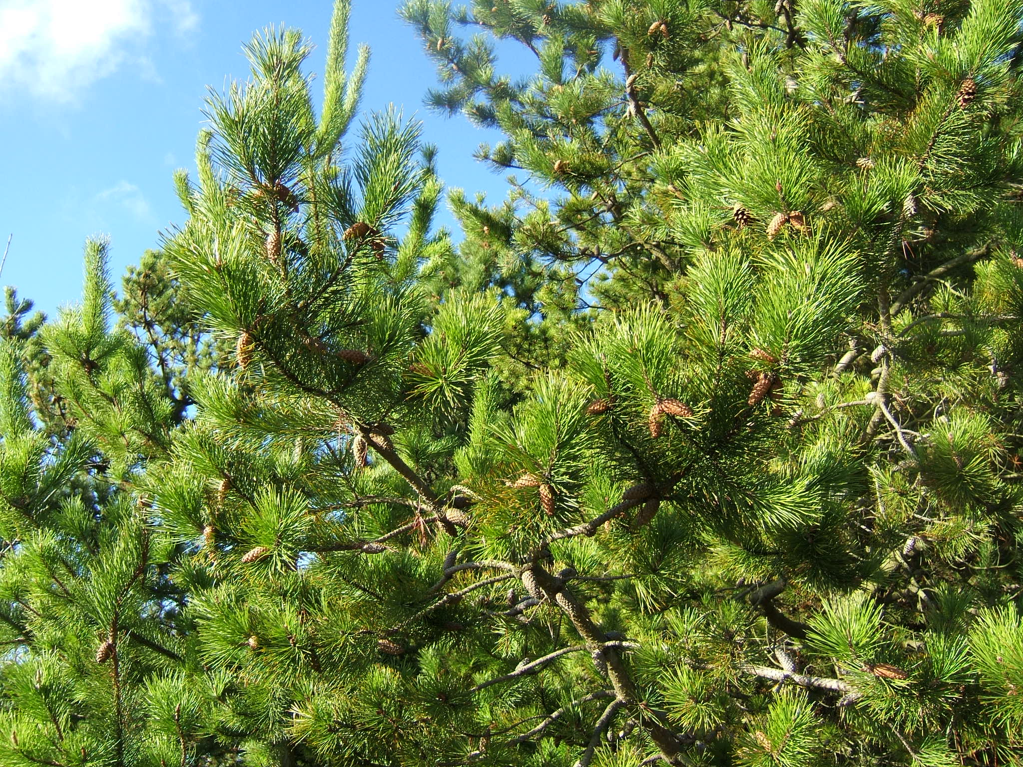 Pinus contorta subsp. contorta Naturalised trees, Swallow Pond, Wallsend, Northumberland, UK; November 2005